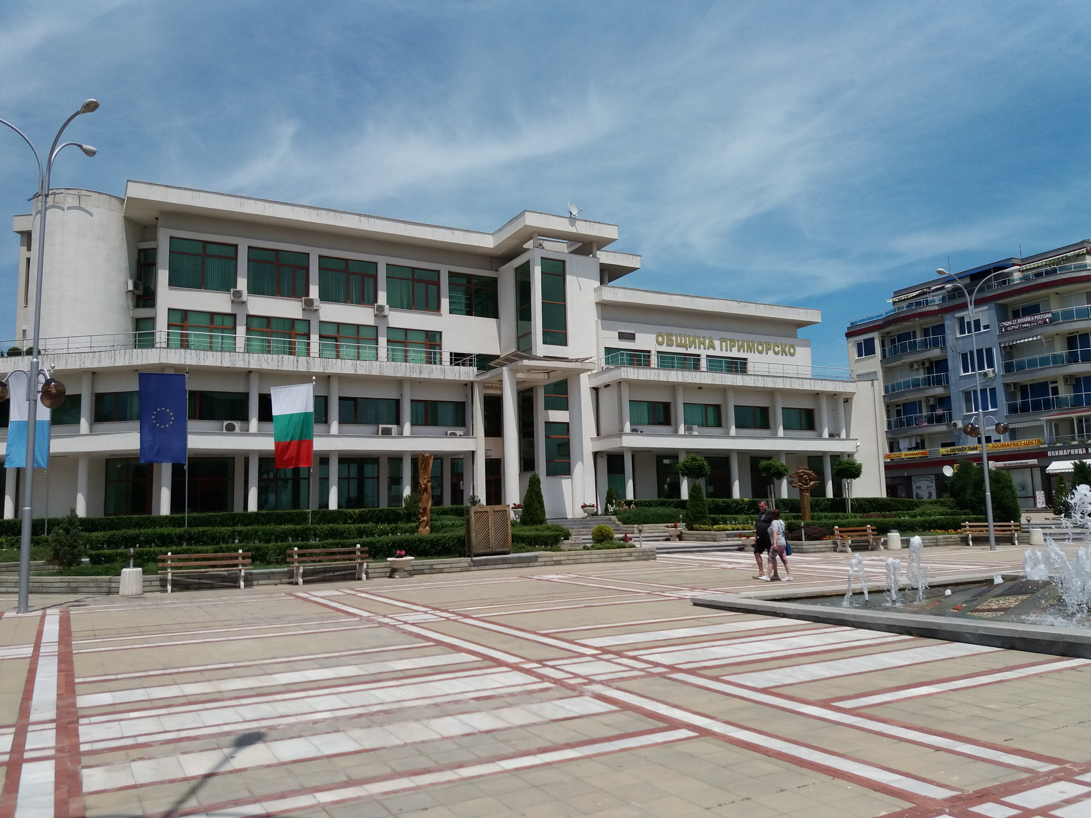 The building of Primorsko Municipality